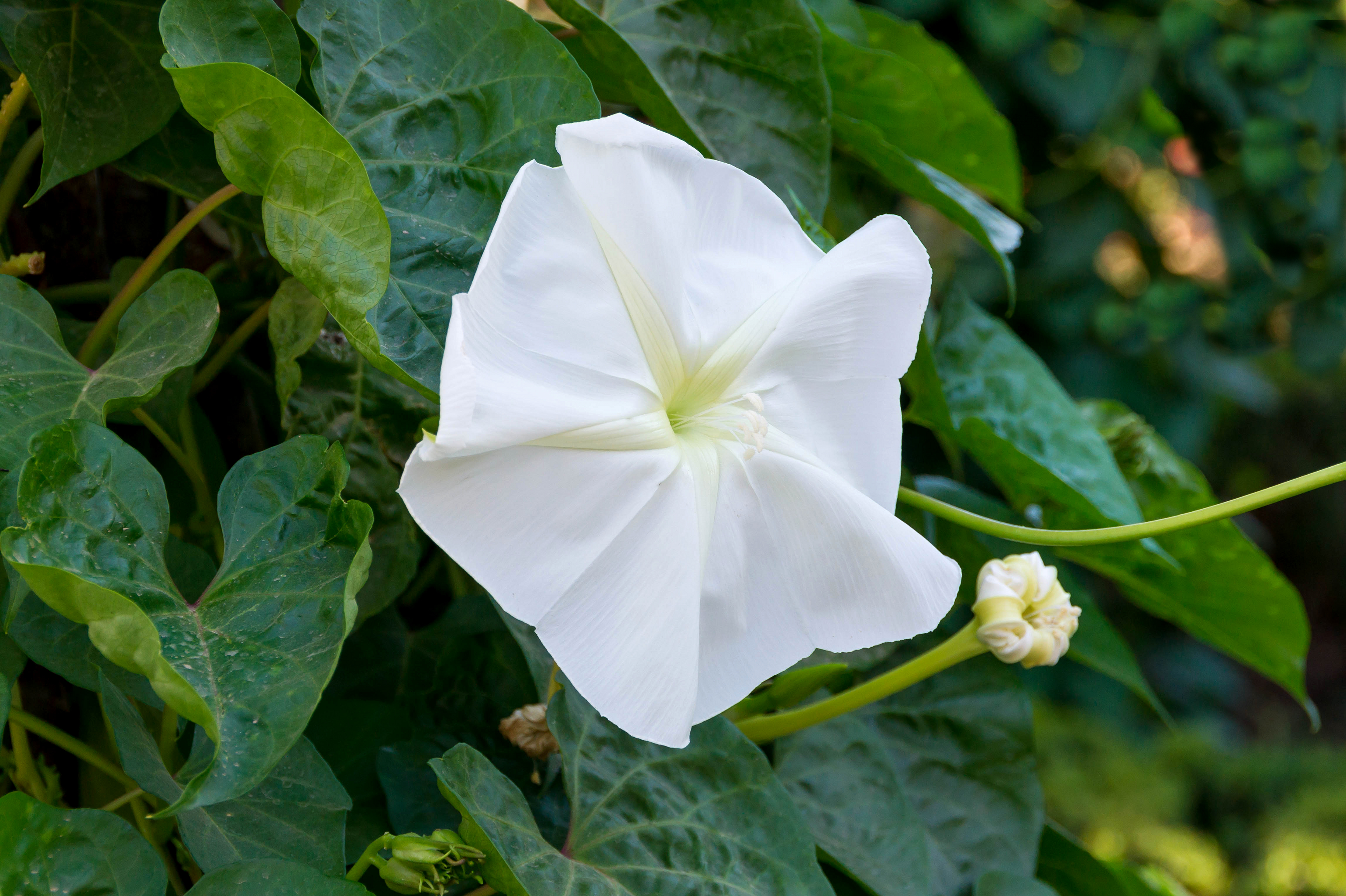 Ipomoea alba, moon vine, Alhambra gardens, Granada, Spain.